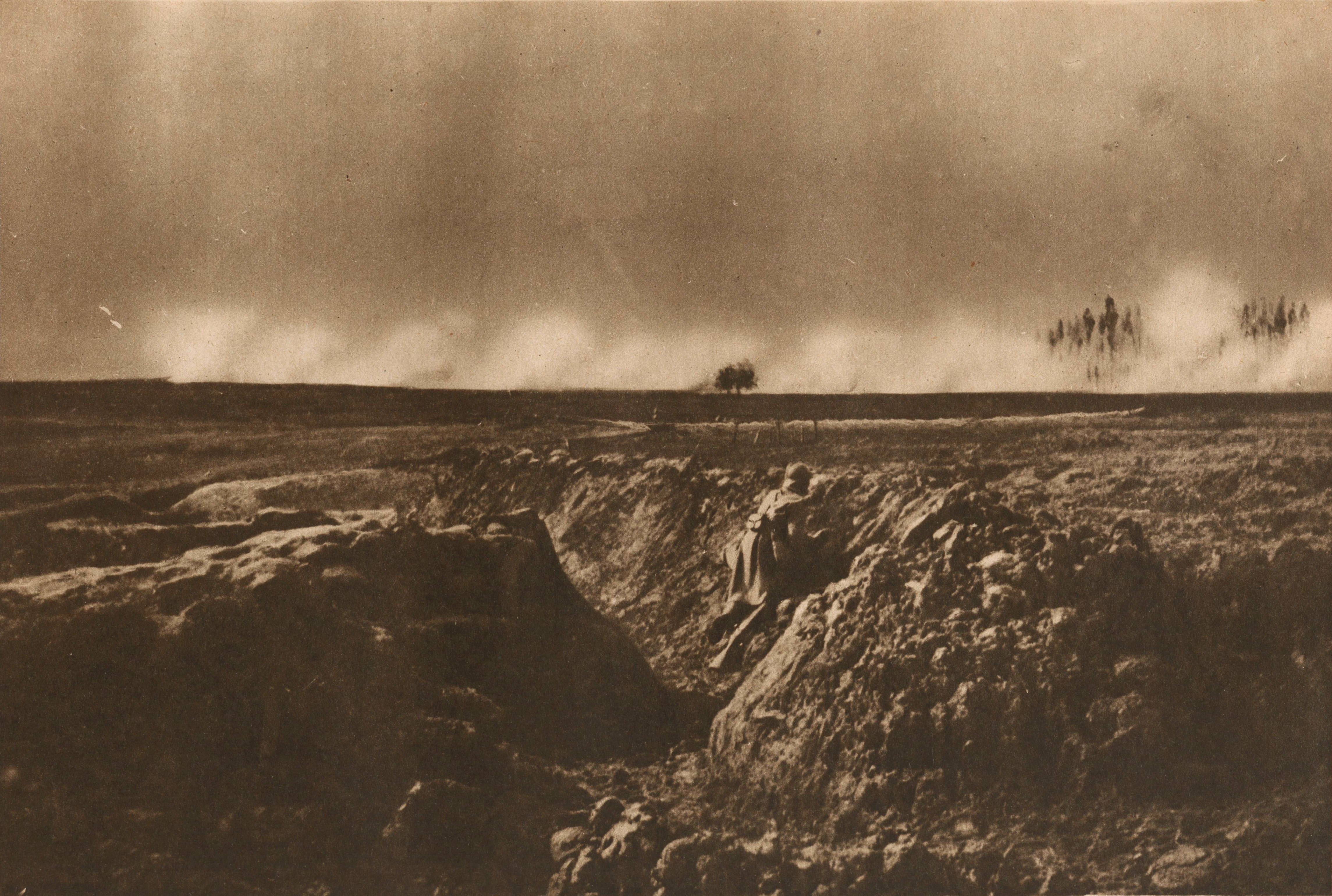 Firing artillery barrage in 1917 on Craonne. Photography published by the weekly The Mirror 15 July 1917 with the following comment: " Between the watcher and explosions, a trench is still occupied by the Germans."